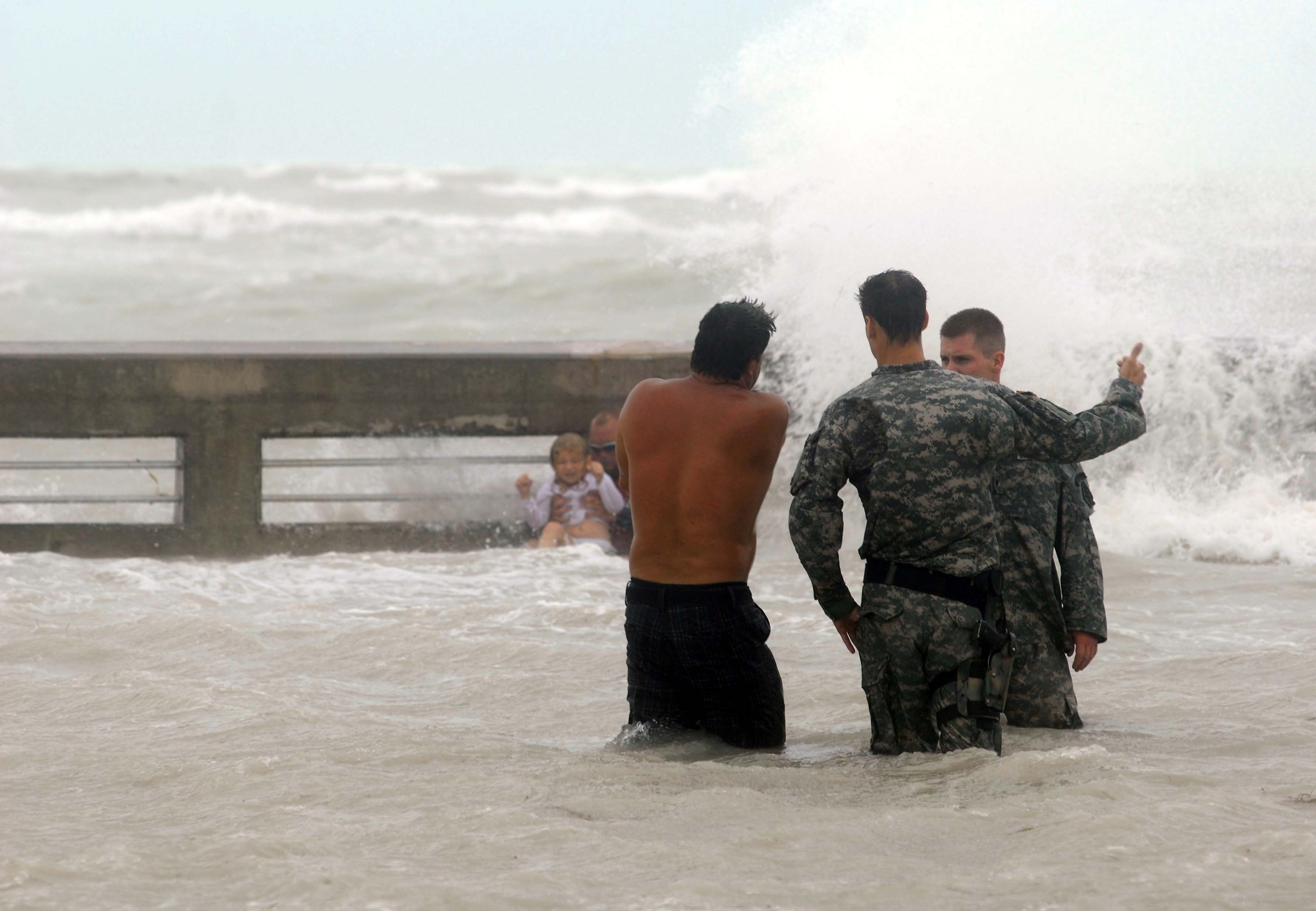 Soldiers from the Florida Army National Guard's 3rd Battalion, 20th Special Forces Group, talk to a resident swimming in the flooded section of the White Street Fishing Pier in Key West, Fla., Sept. 9, 2008. People braved the dangerous conditions at the end of the pier as storm surge from Hurricane Ike crashed over the barriers and flooded the pier. Guardsmen and Key West police officers warned the swimmers of the unsafe conditions, and soon the pier was closed to visitors by city officials. In the background a man holds a child in the dangerous surf.